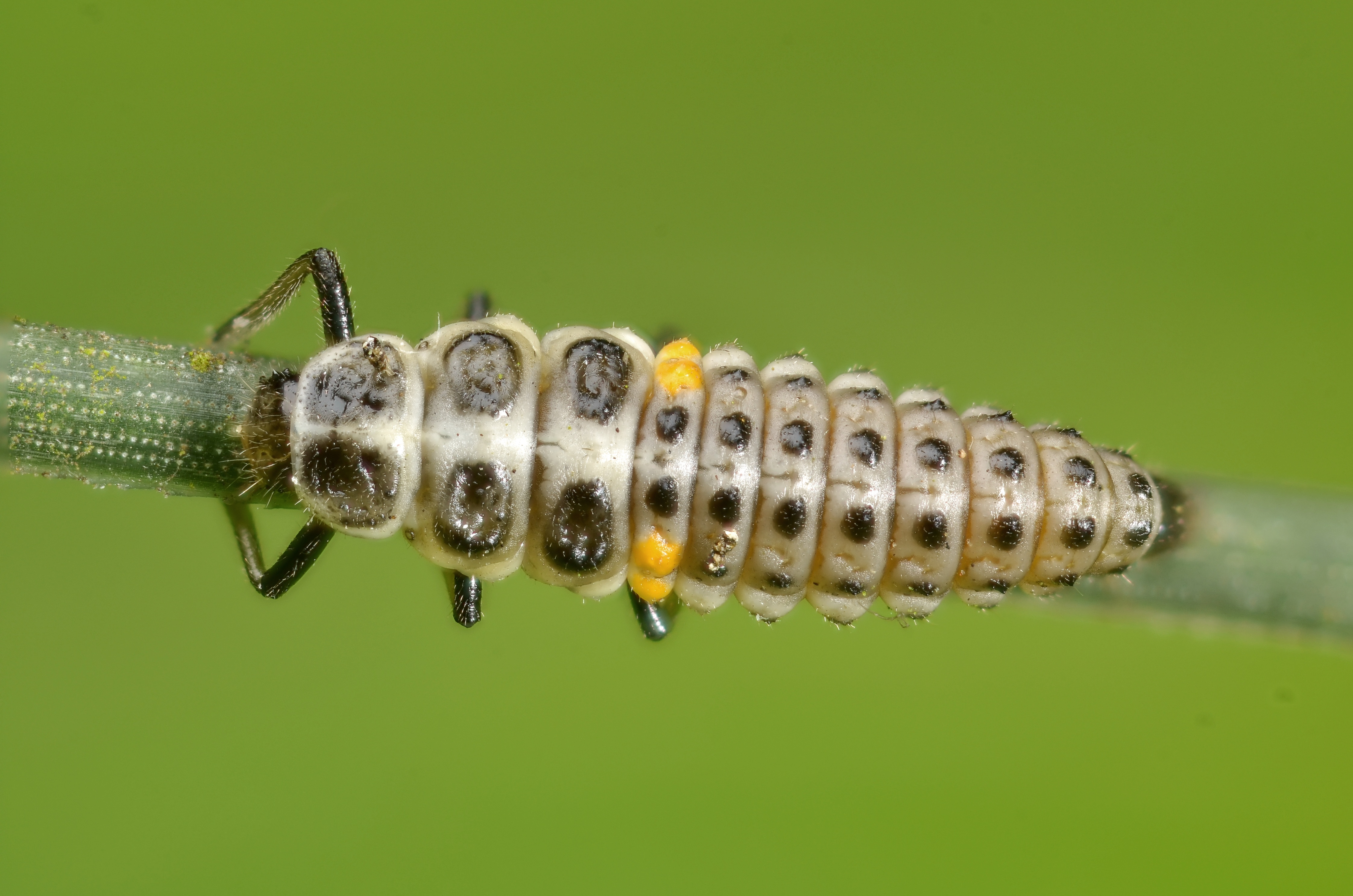 Larvae of the ladybird Myrrha octodecimguttata. Jambes, Belgium Focus stack of 12 handheld pictures Micro-Nikkor 60 mm at f/10 on extension tubes